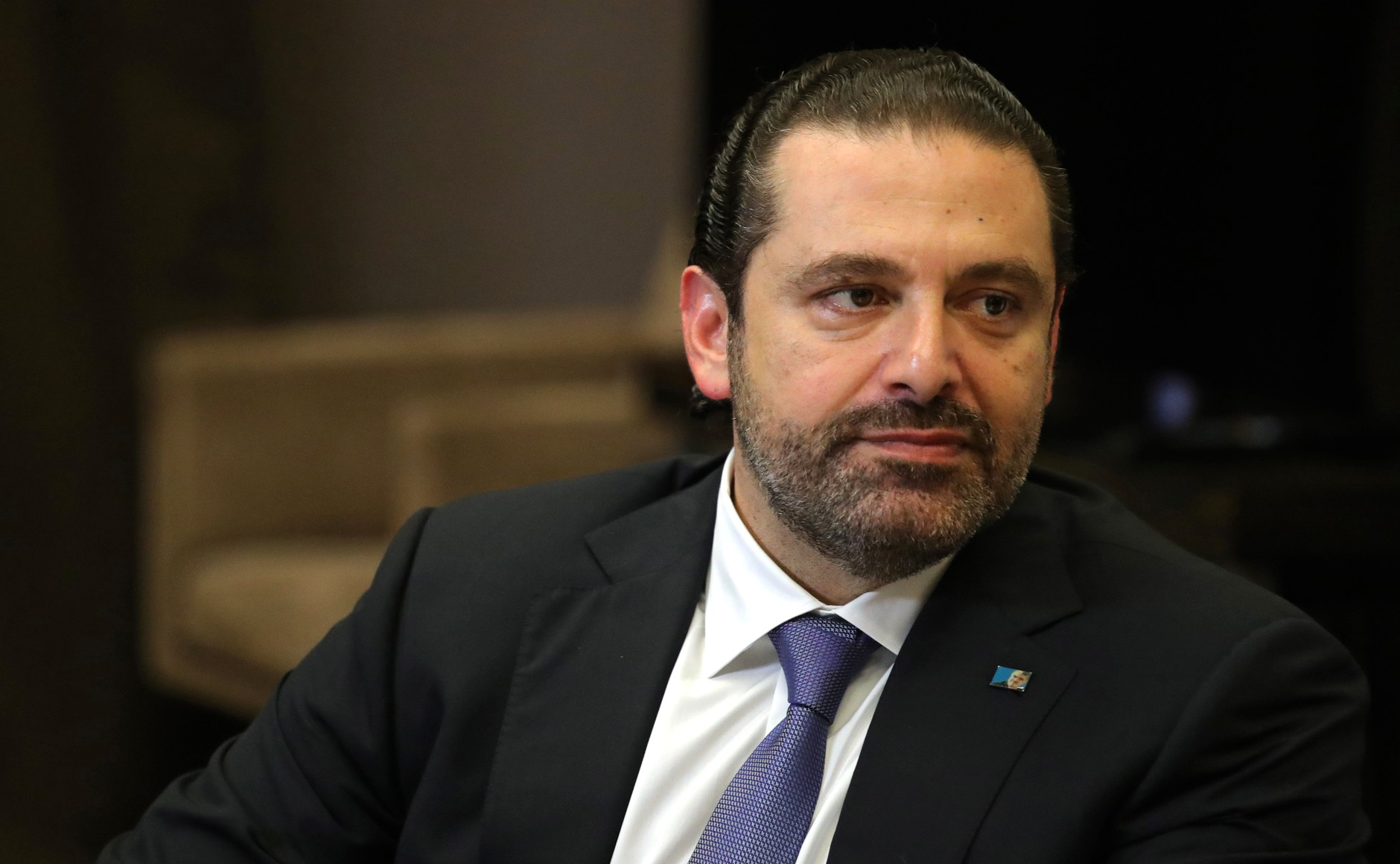 President of Russia Vladimir Putin & Prime Minister Lebanon Saad Hariri in Sochi, 13 September 2017